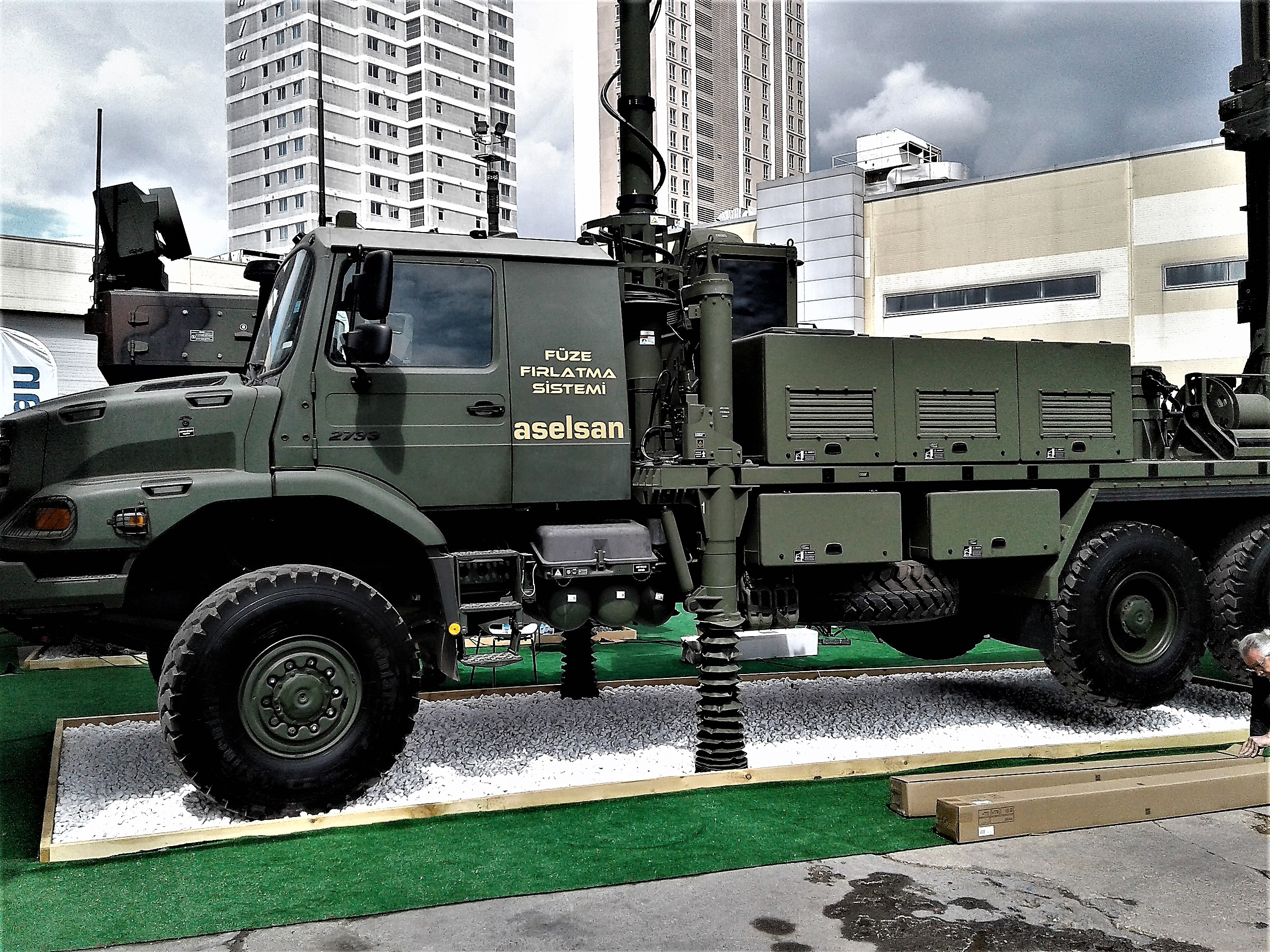 Rocket launcher truck of Aselsan at the IDEF 2019 in Istanbul, Turkey.